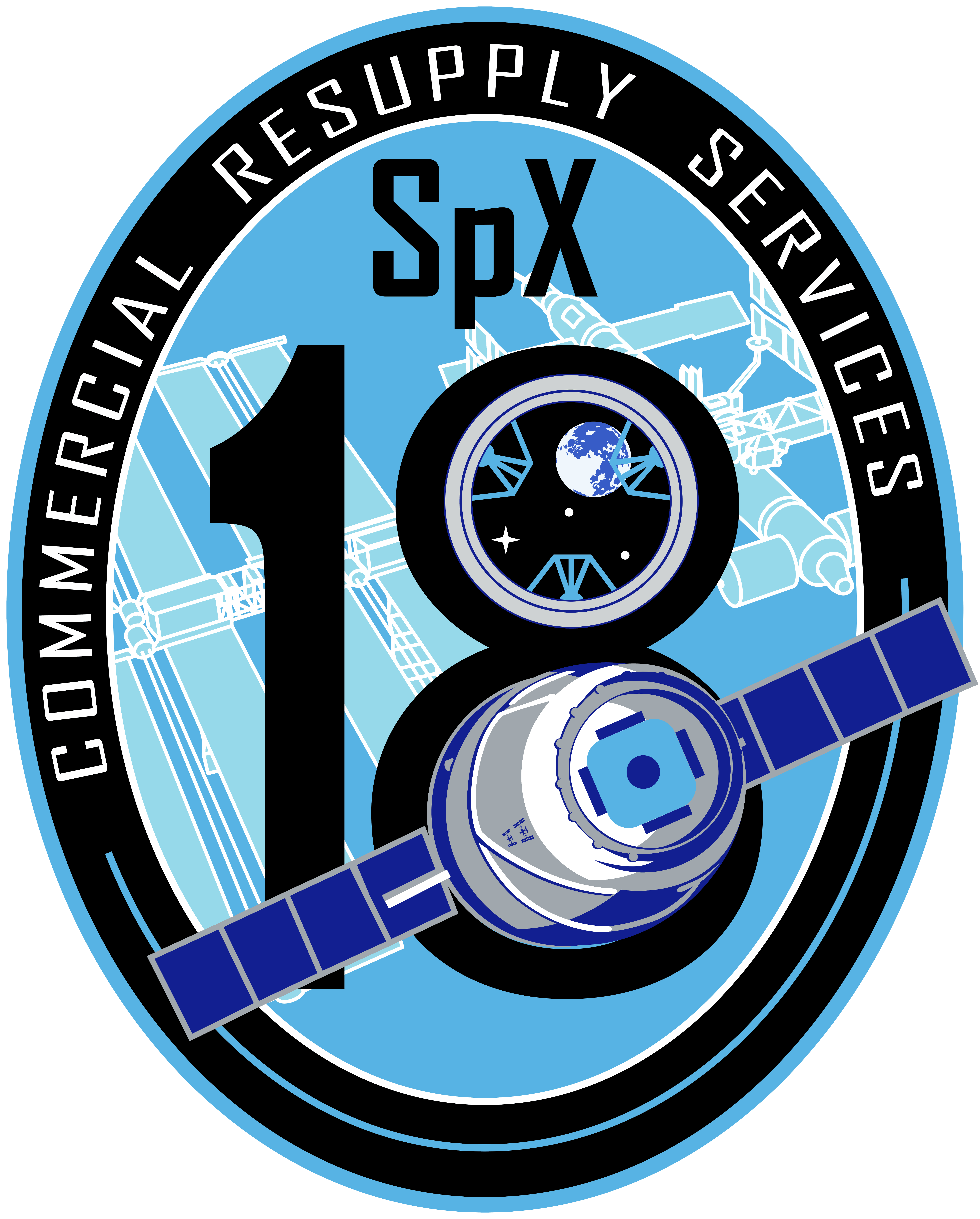 NASA's insignia for SpaceX's 18th Commercial Resupply Services flight to the International Space Station.